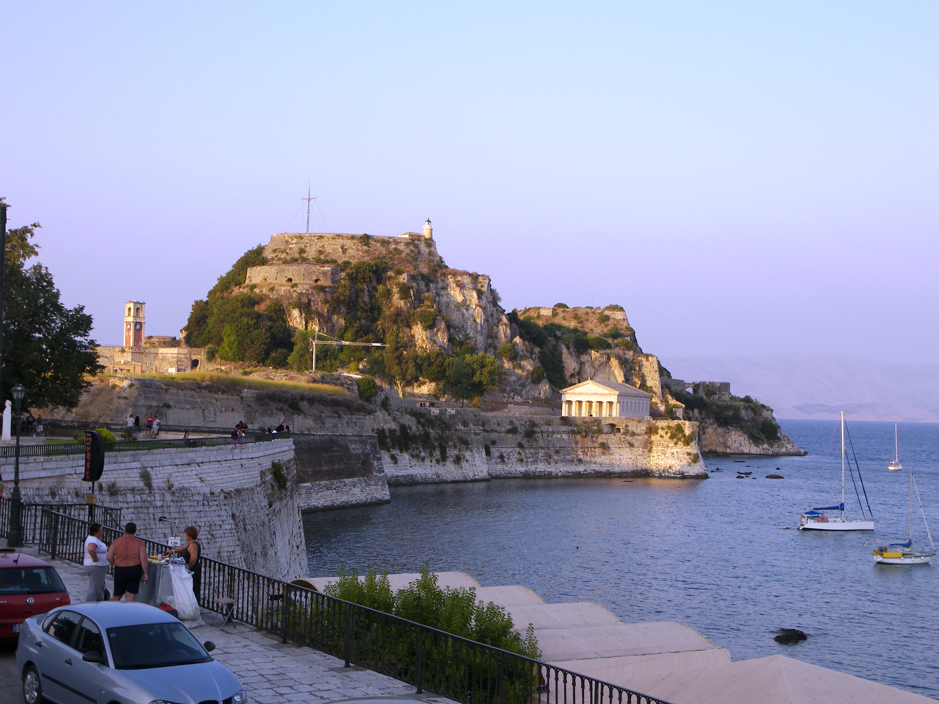 Please see filename